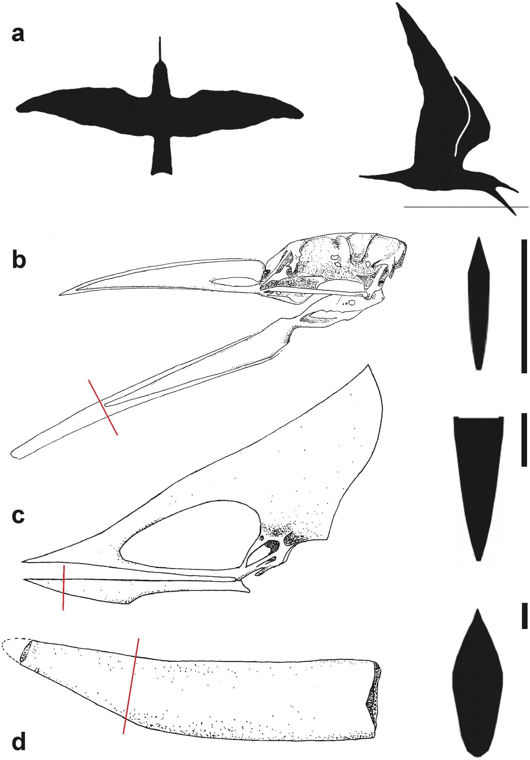 Comparative Dimensions of Rynchops and Pterosaur Lower Jaws (A) Dorsal (left) and lateral (right) views of Rynchops niger cinerascens in foraging flight. Flight altitude was estimated from bill length, bill penetration and bill angle (45 °). (B) Skull of Rynchops showing cross-sectional shape of lower jaw. (C) Skull of Tupuxuara sp. (IMCF 1052) and cross-section of lower jaw. (D) Jaw fragment of Banguela oberlii (or Thalassodromeus, inaccurately referred to as T. sethi in source[1]) and cross-section of lower jaw. Lines of sections indicated by red lines. Jaw section scale bars equal to 10 mm.